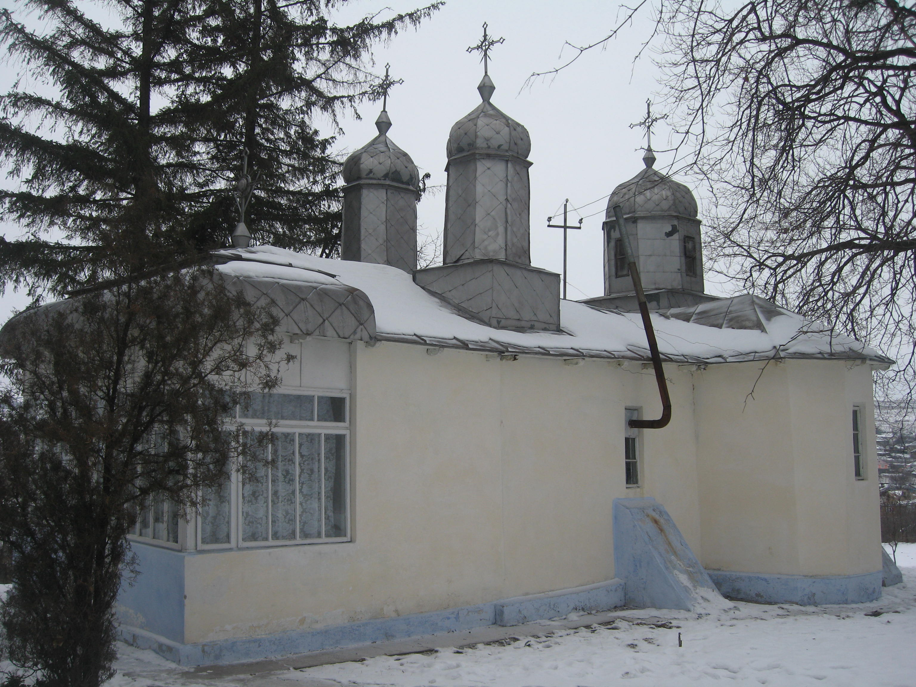 Biserica de lemn din Răducăneni